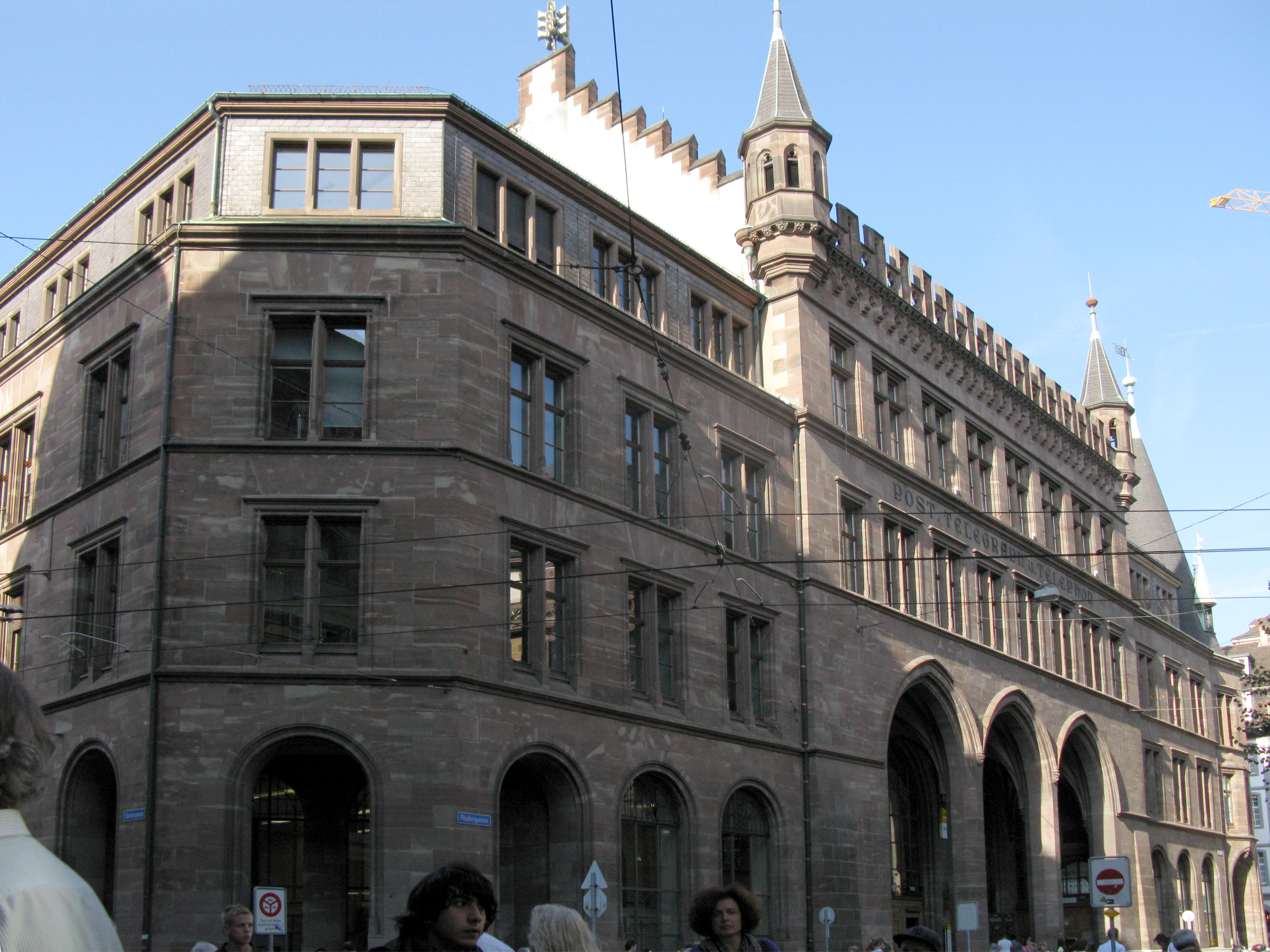 general post office